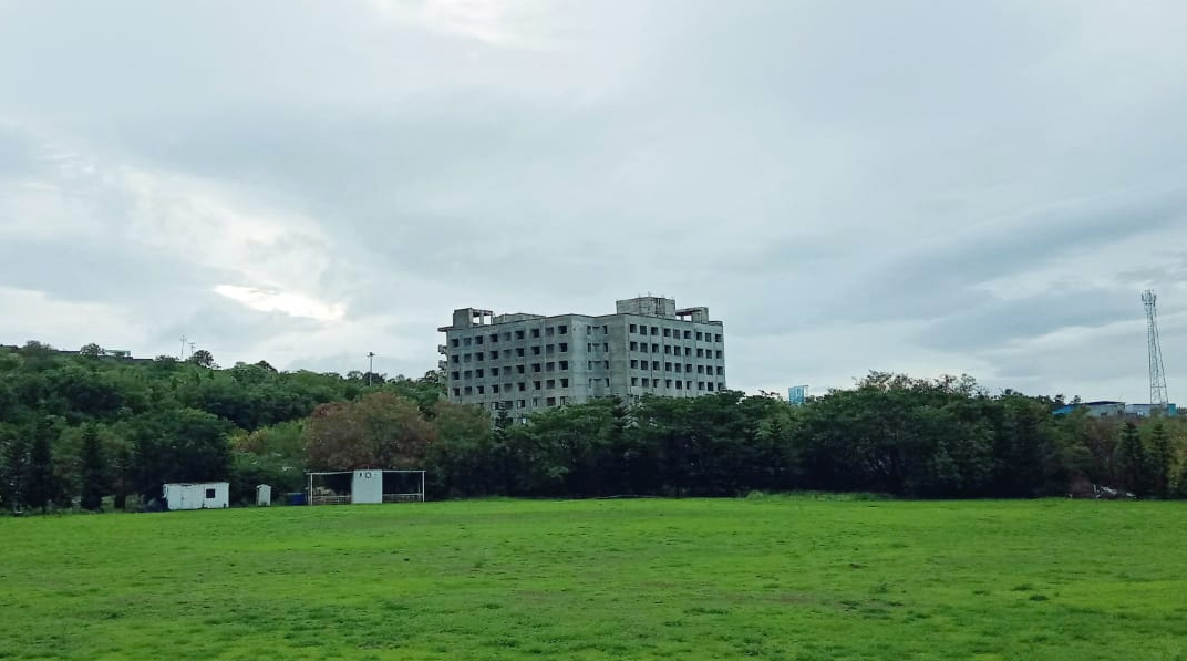 IIIT Pune Boys Hostel